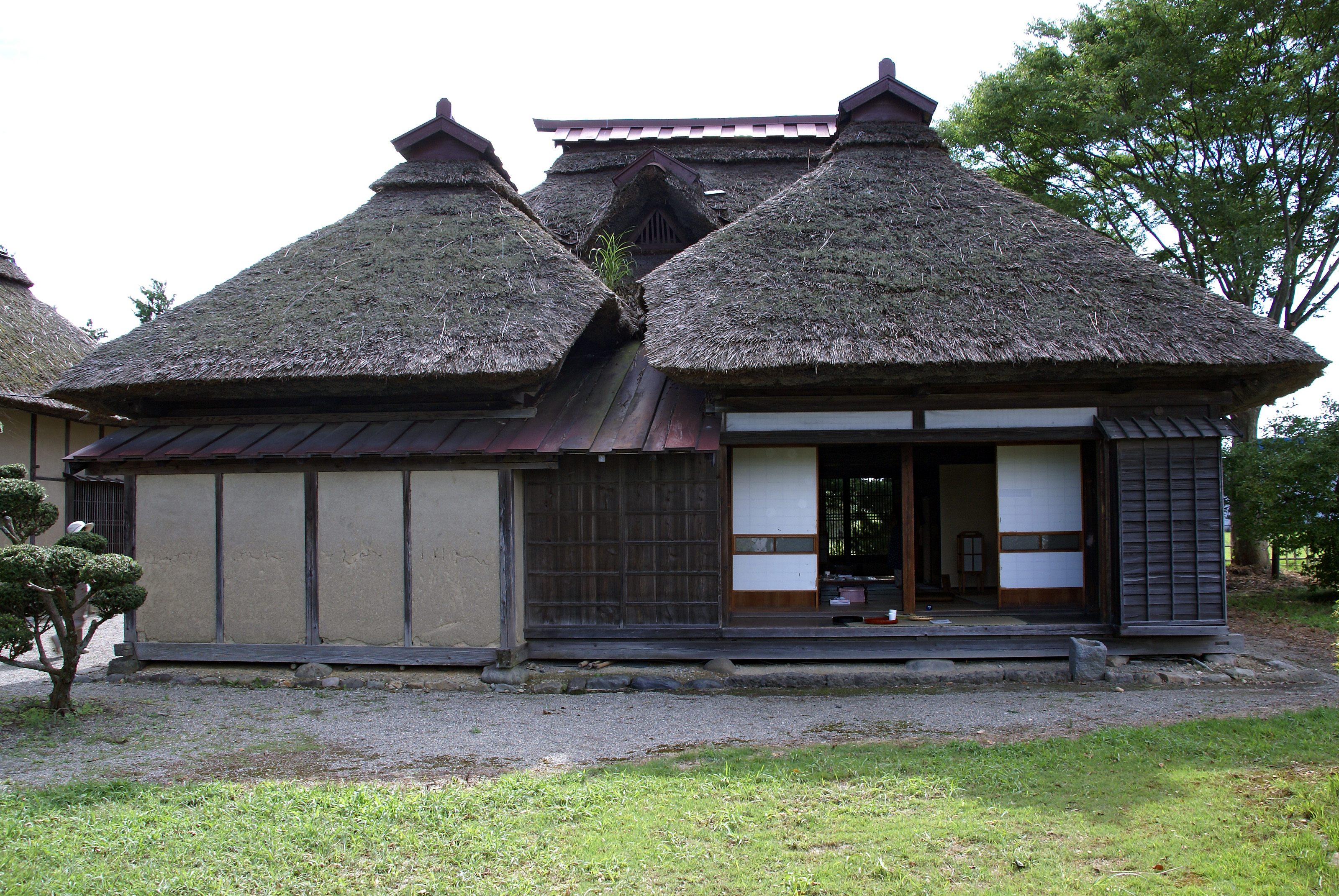 Doshin-yashikis in Hanamaki, Iwate prefecture, Japan